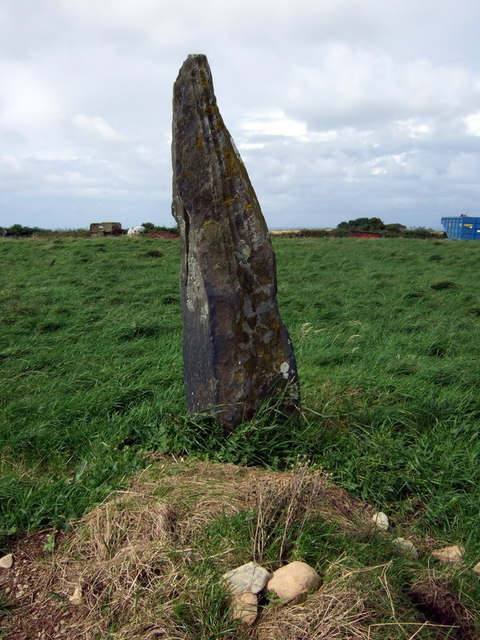 Llanrhian, Pembrokeshire, Wales